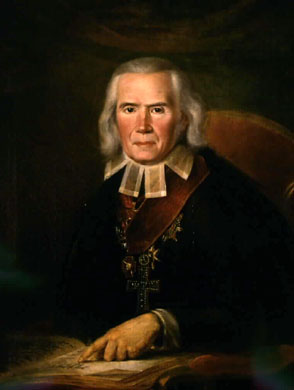 Jacob Tengström, the first archbishop of Finland, painted by Gustaf Wilhelm Finnberg.